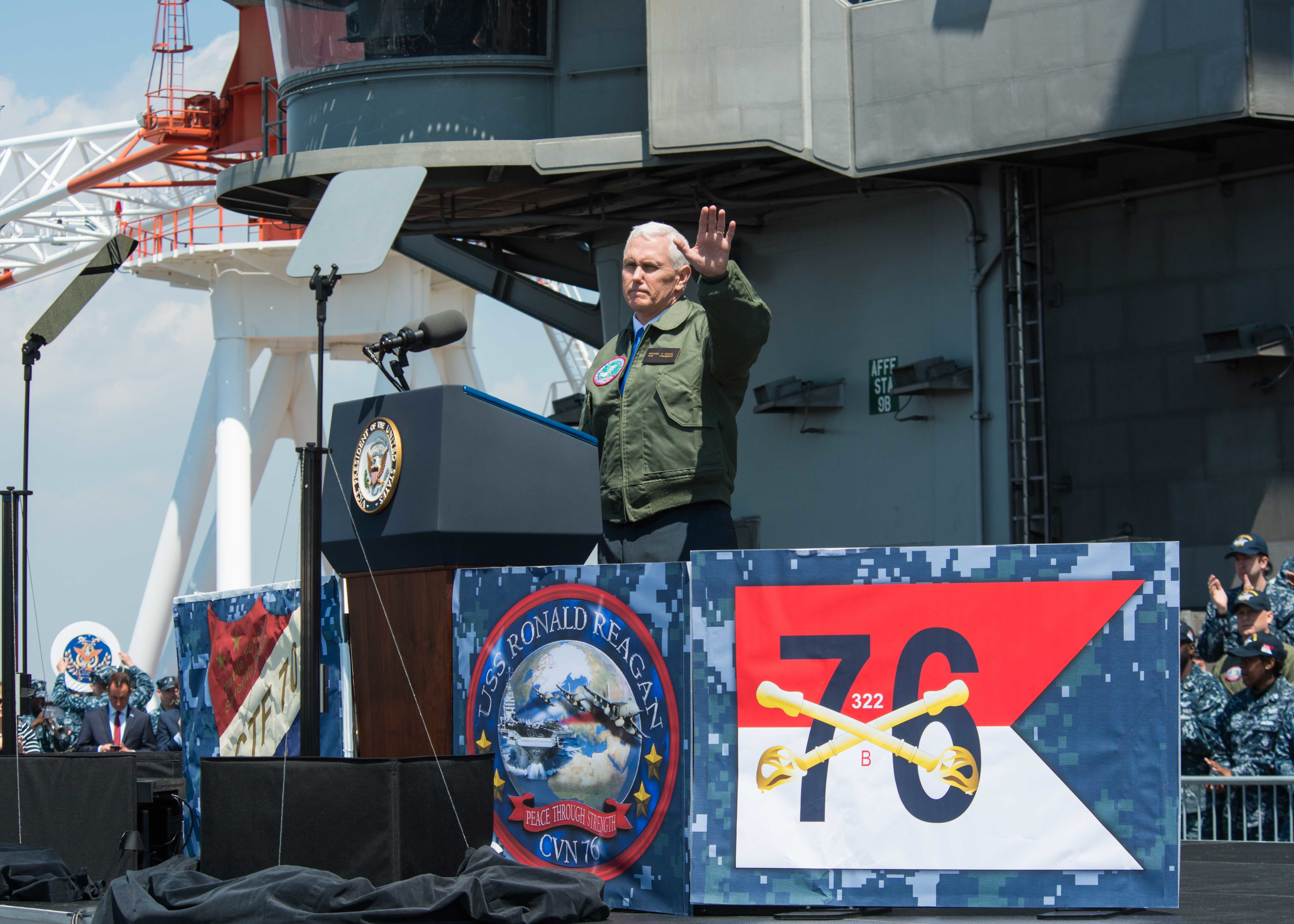 170419-N-WA993-473 YOKOSUKA, Japan (April 19, 2017) Vice President Michael R. Pence waves to service members on the flight deck of the Navy’s forward-deployed aircraft carrier, USS Ronald Reagan (CVN 76). The vice president’s tour of the ship and his remarks to U.S. and Japanese service members highlighted the administration’s continuing commitment to rebuilding the U.S. military and to its alliances in the region. Ronald Reagan, the flagship of Carrier Strike Group 5, provides a combat-ready force that protects and defends the collective maritime interests of its allies and partners in the Indo-Asia-Pacific region. (U.S. Navy photo by Mass Communication Specialist 3rd Class James Lee/Released)